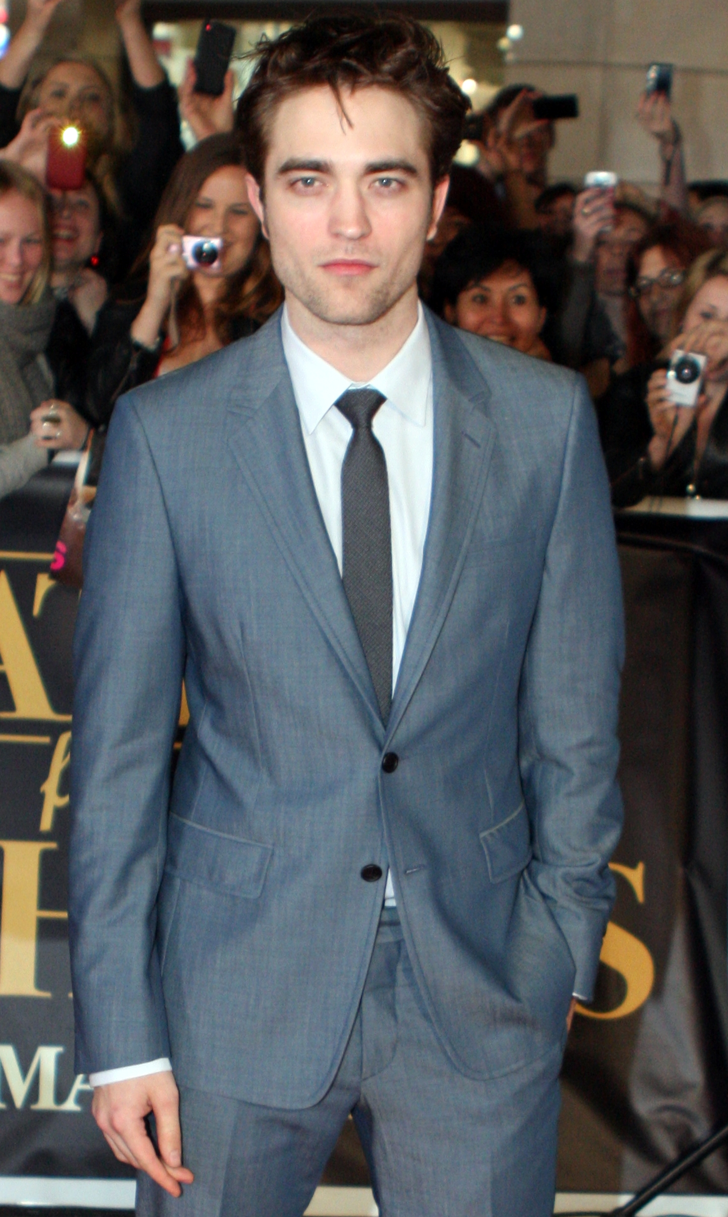 British actor Robert Pattinson at the premiere of Water for Elephants in 2011.